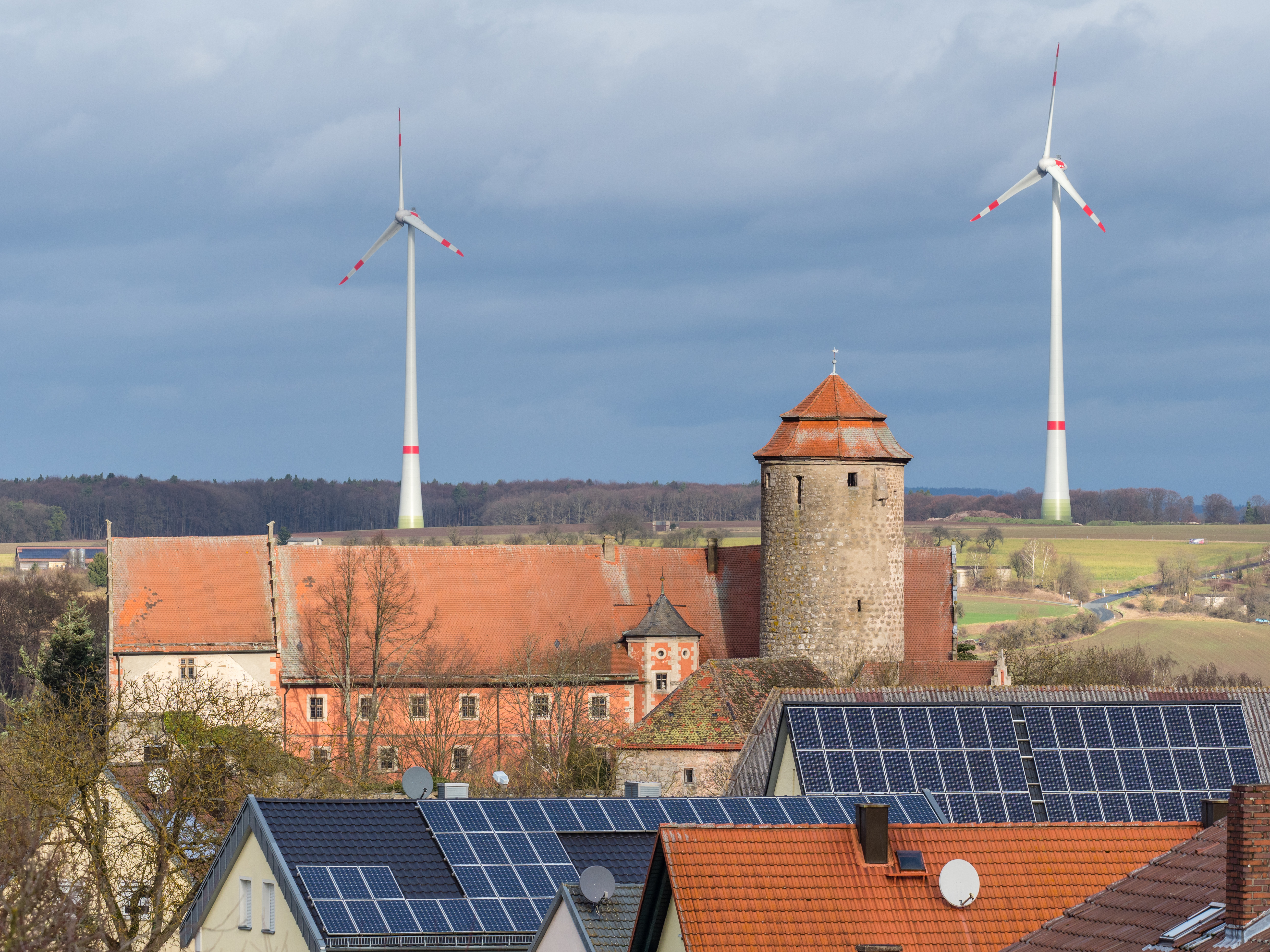 Windmills behind Lisberg Castle